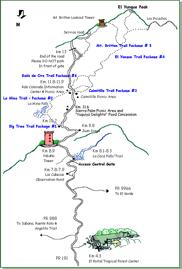 A map of trails and other locations along Puerto Rico Highway 191 in El Yunque National Forest, Puerto Rico.